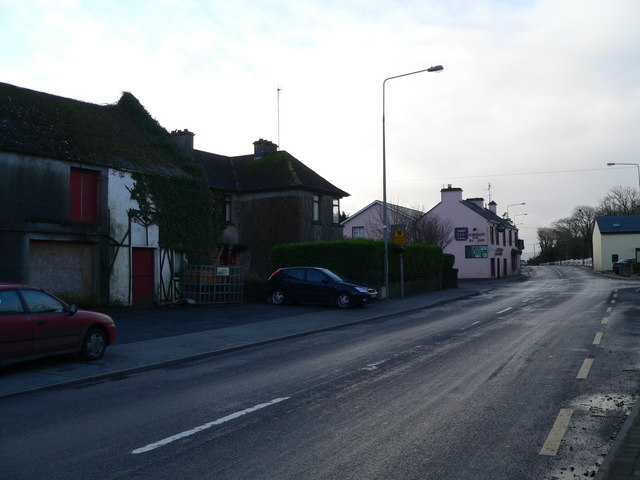 Ballinderreen Village.